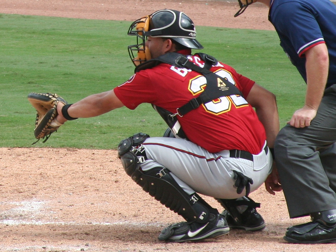 J. C. Boscán, a catcher for the minor league Nashville Sounds, prepares to catch at pitch in a game at the Dell Diamond on September 9, 2006